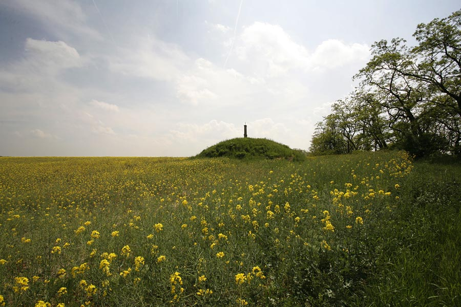 Tumulus from bronze age in Chotoun village